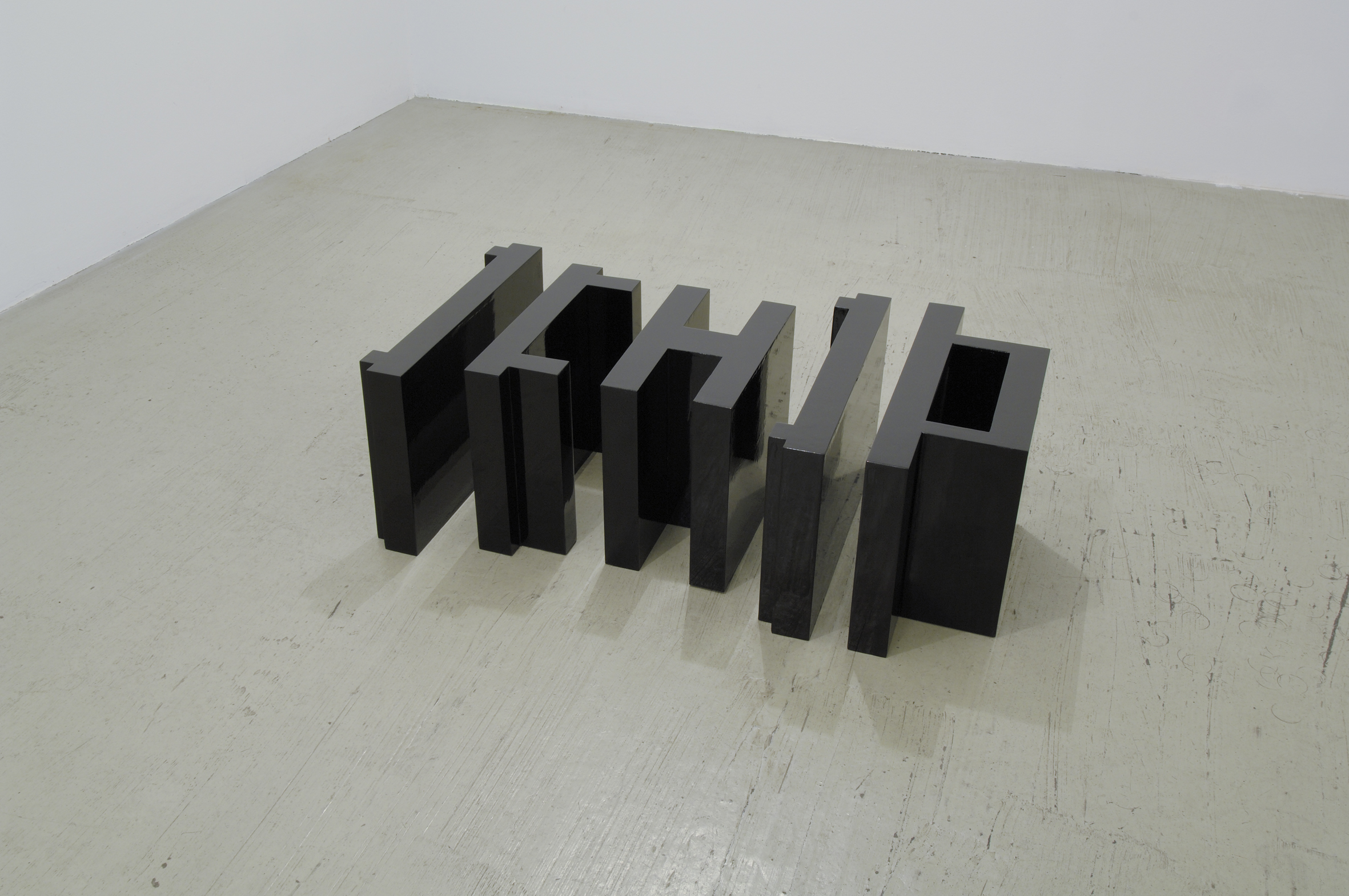 Installation view of the artwork "Truth" by Ana Roldán. Ana Roldán, Truth, 2006, Wood, Lacquer, 105 x 56 x 36 cm